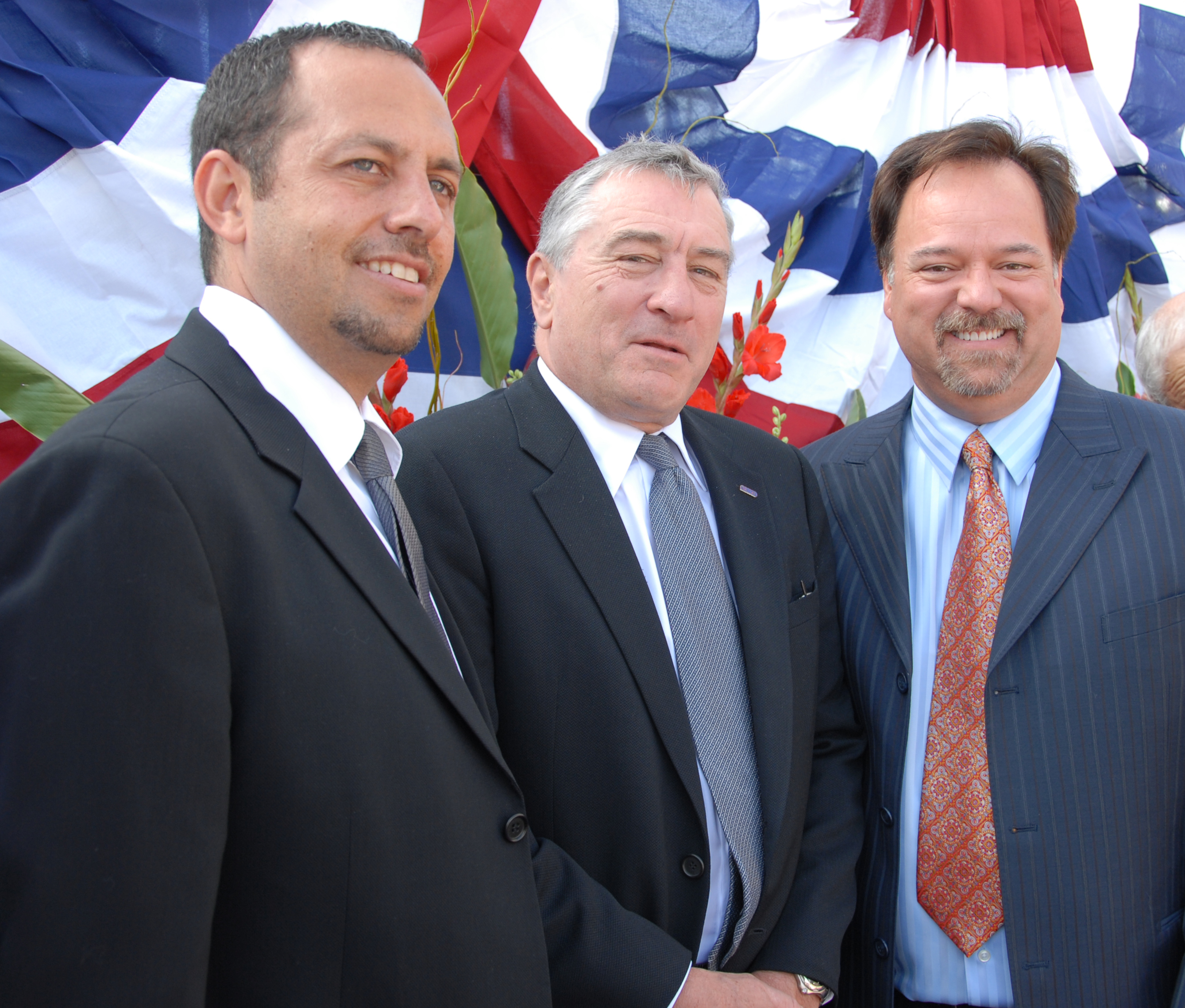 Men of Honor producer Robert Teitel, actor Robert De Niro, and screenwriter Scott Marshall Smith attending the launch of USNS Carl Brashear.